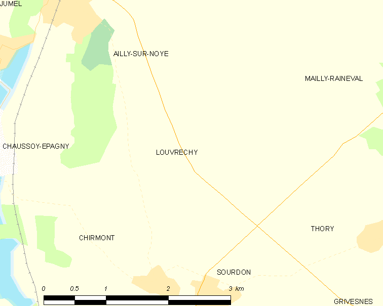 Map of French municipality Louvrechy